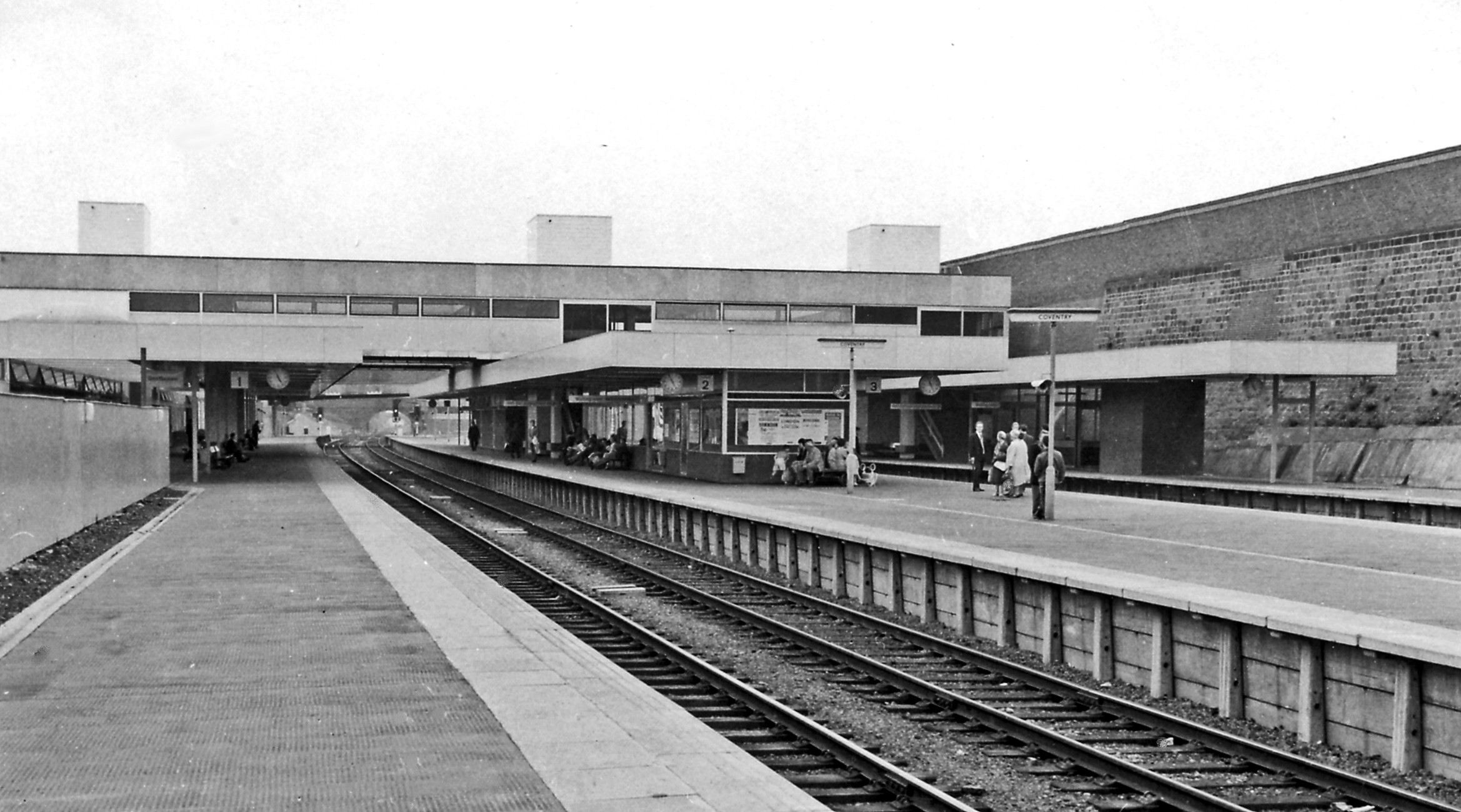 Coventry Station, newly rebuilt. View eastwards, towards Rugby etc.: ex-LNW London - Rugby - Birmingham main line, junction for lines to Leamington Spa and to Nuneaton. The new station had been totally rebuilt with four through platforms, from the original and inadequate two platforms, in connection with main-line electrification - not yet in evidence in September 1962. (See also SP3378 : Coventry Station concourse, from interior).